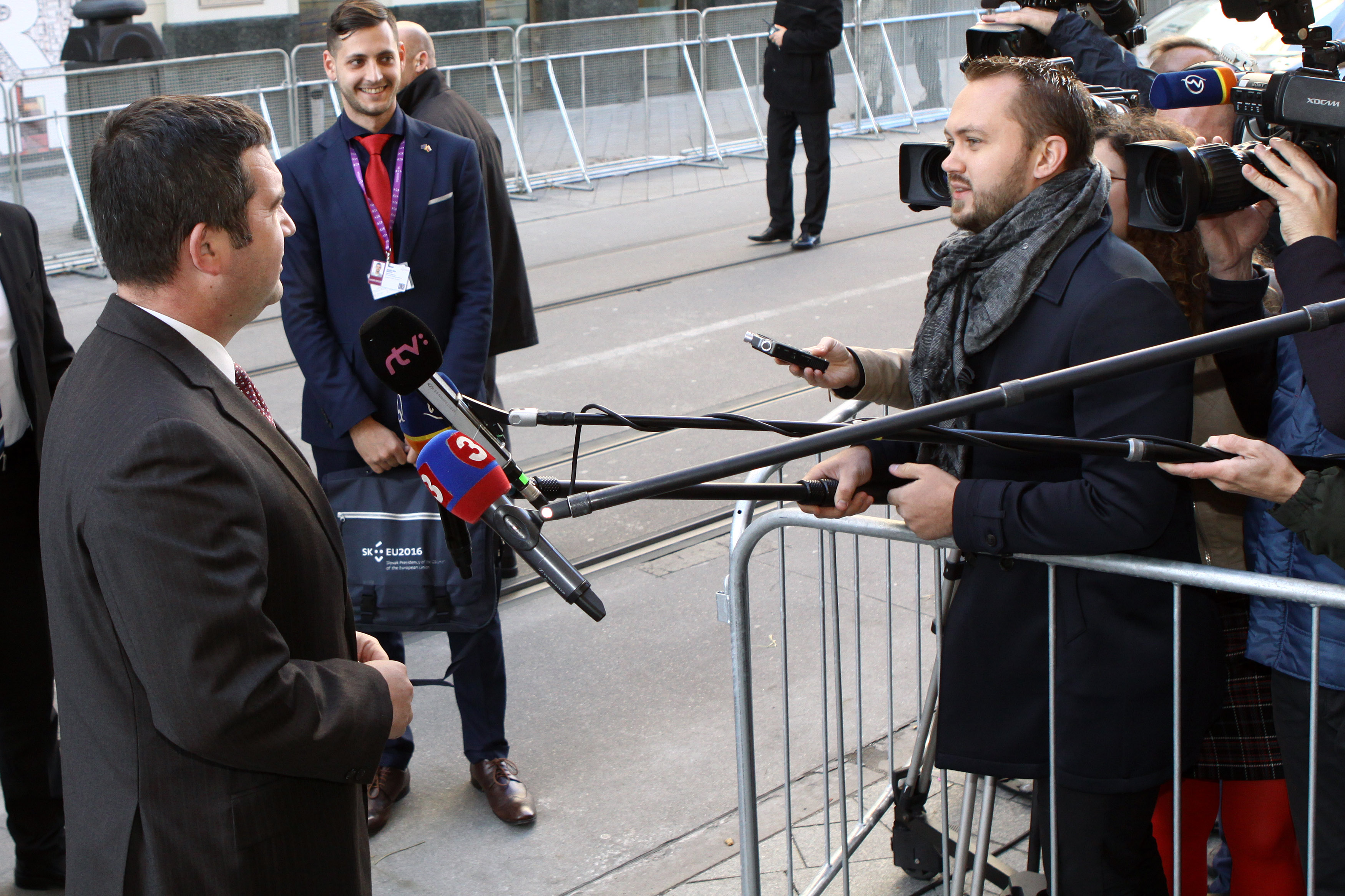 Bratislava Parliamentary Summit-Informal Meeting of Speakers of EU Parliaments Photo: Andrej Klizan